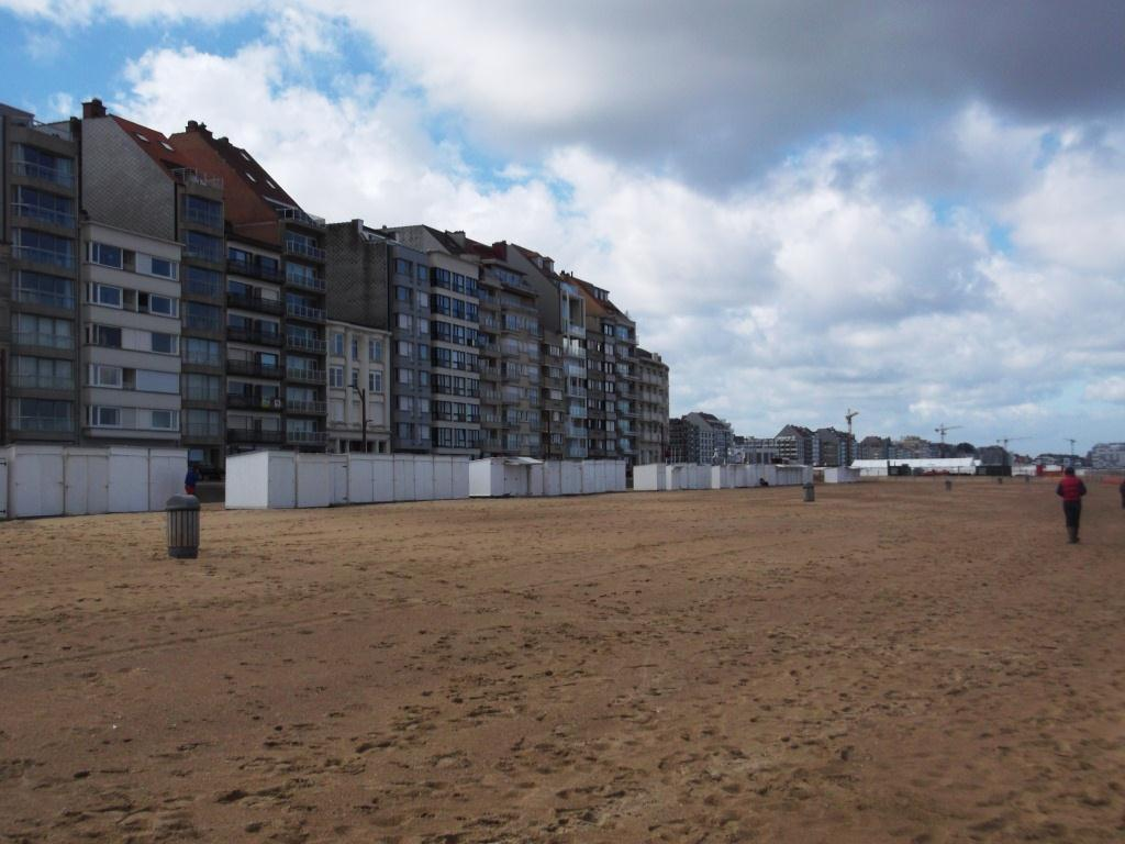 Knokke embankment